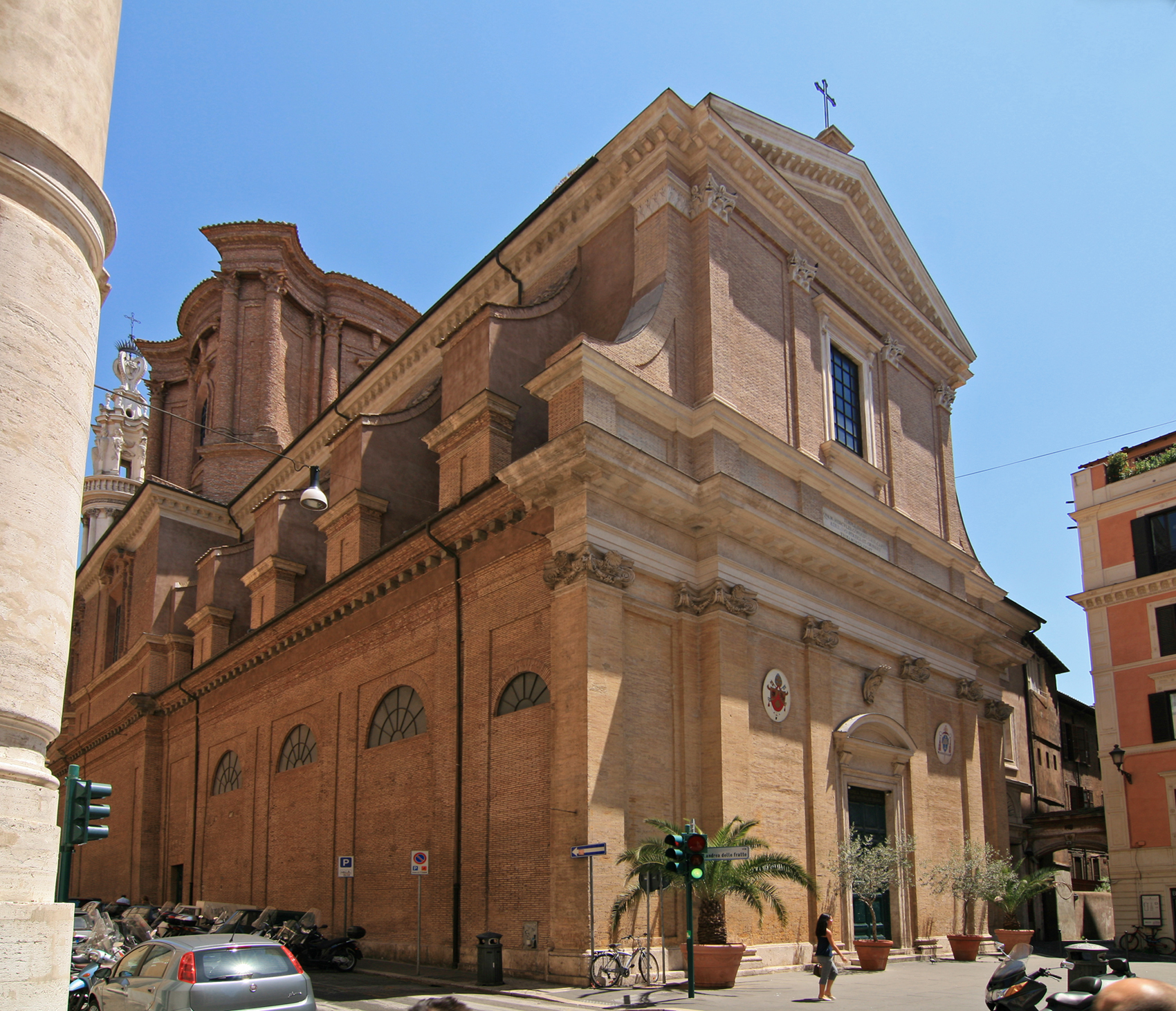 Church of Sant'Andrea delle Fratte, Rome.